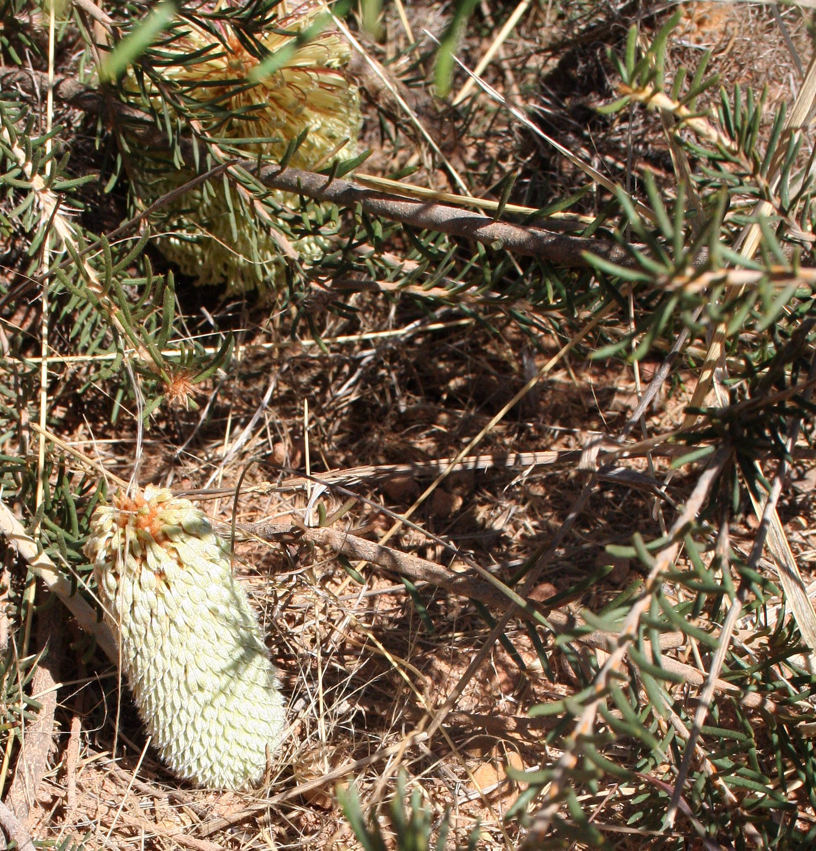 Closeup of bud of Banksia scabrella, on branch which is growing horizontal on ground